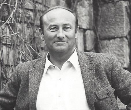 Picture of Robert Fabiankovich